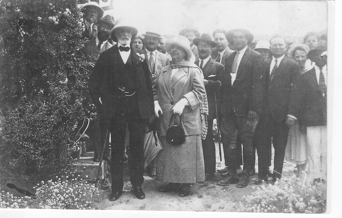 Visit Habaron Rothschild, Events in Israel